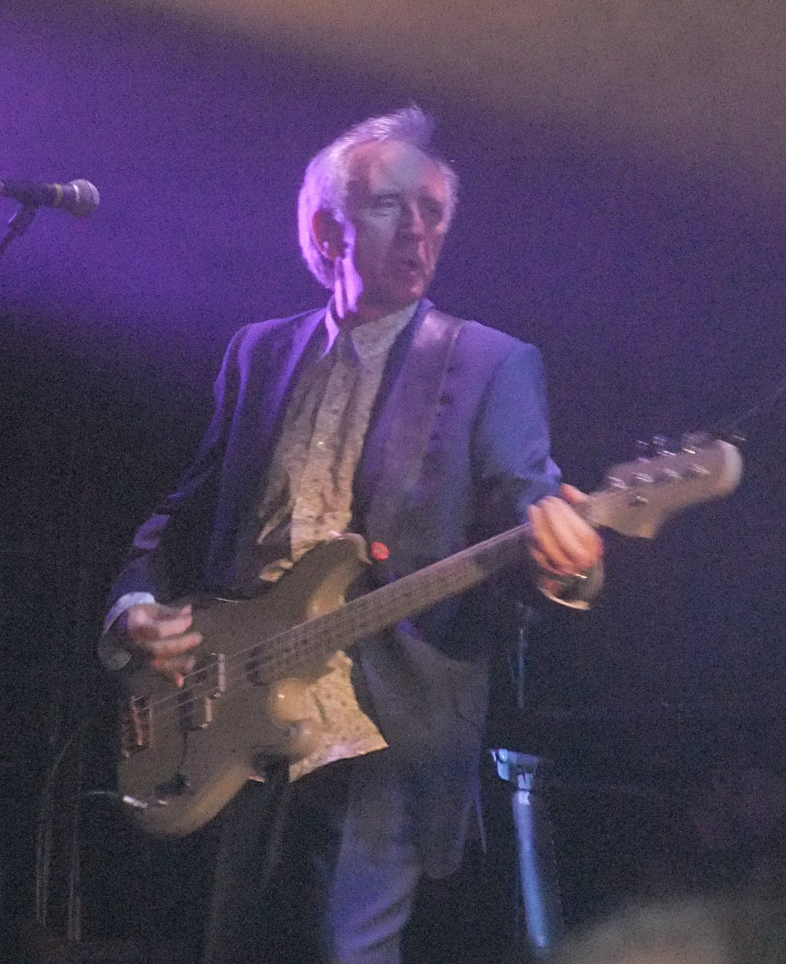 Chris Cross at The Roundhouse, 30th April 2009